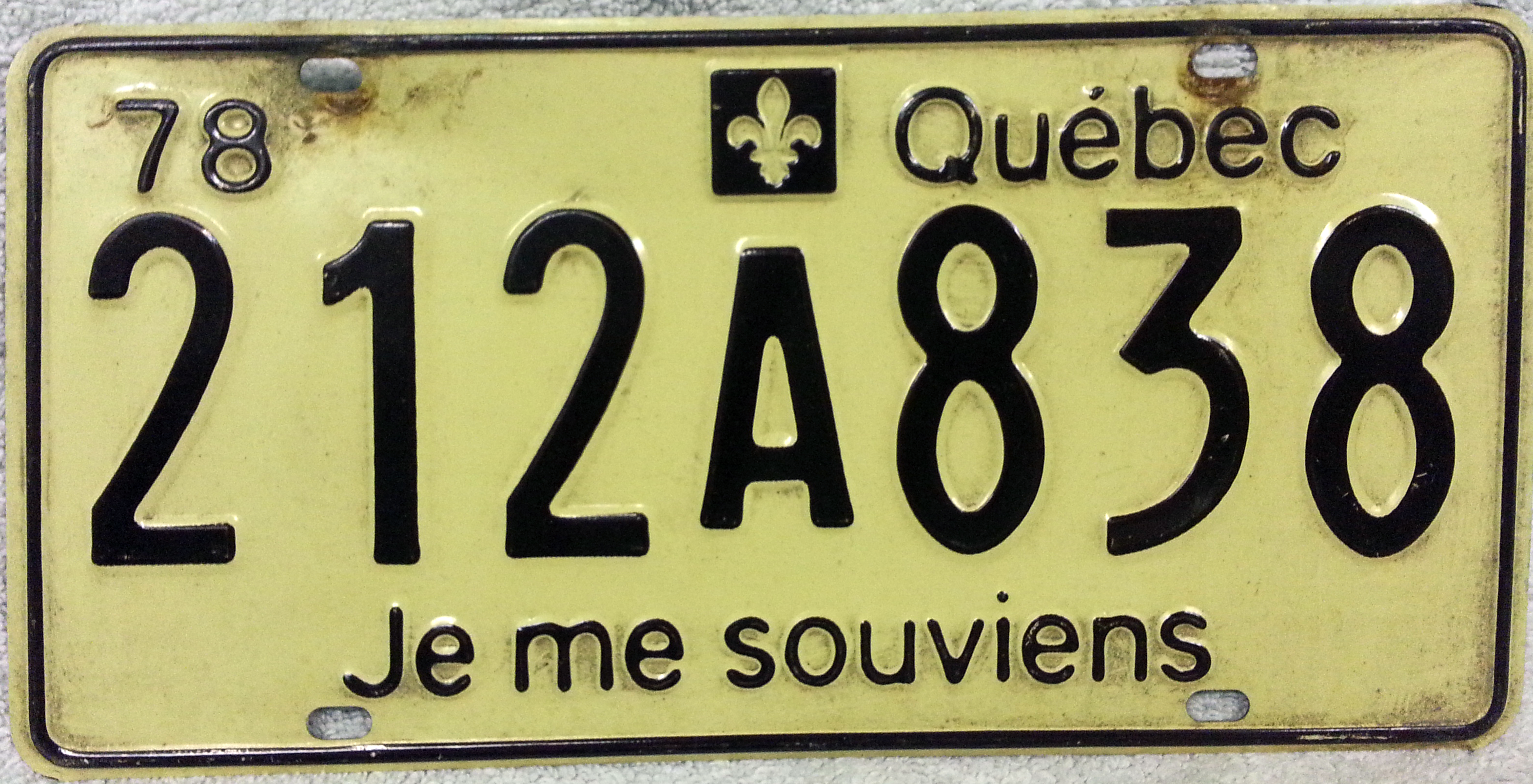 1978 Quebec passenger car number plate. Last year that plates were renewed annually.